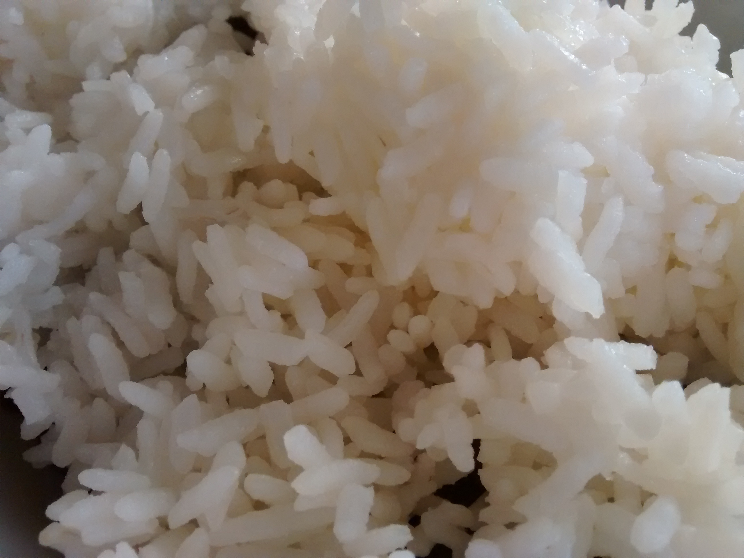 Botan brand Calrose rice.